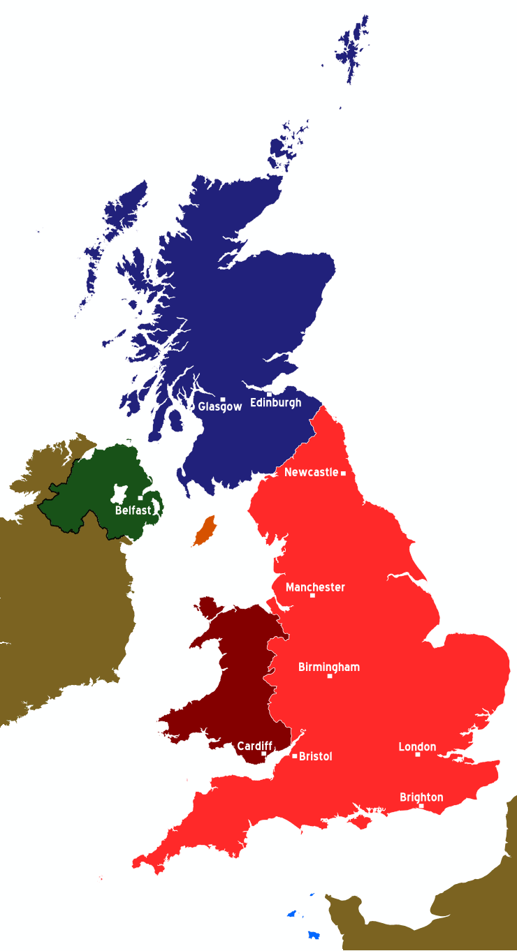 Map of the UK, with major cities and constituent countries shown.